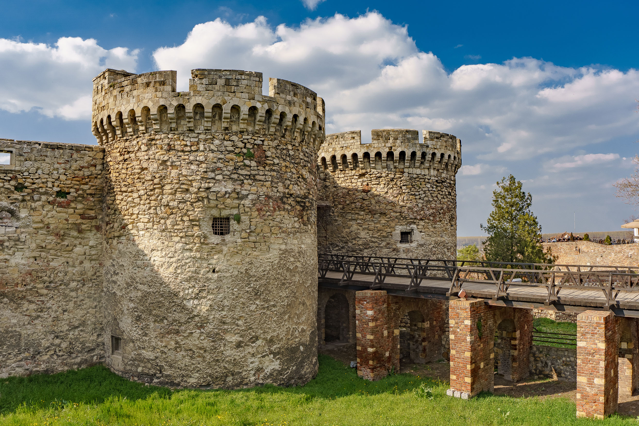 Zindan Gate on Kalemegdan fortress in Belgrade, the capital of Serbia. It is located in Belgrade's municipality of Stari Grad.